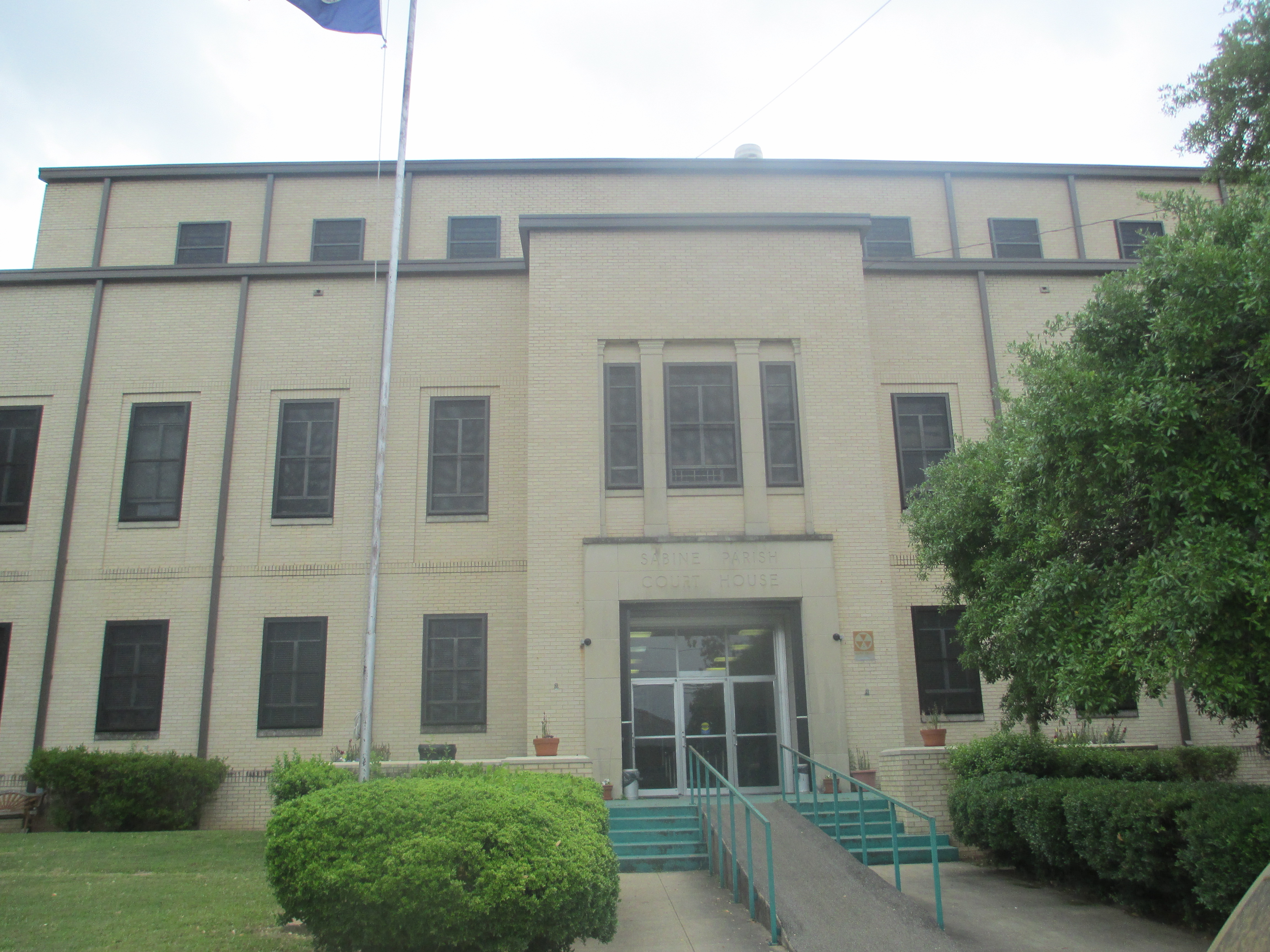 I took photo with Canon camera of Sabine Parish Courthouse in Many, LA.